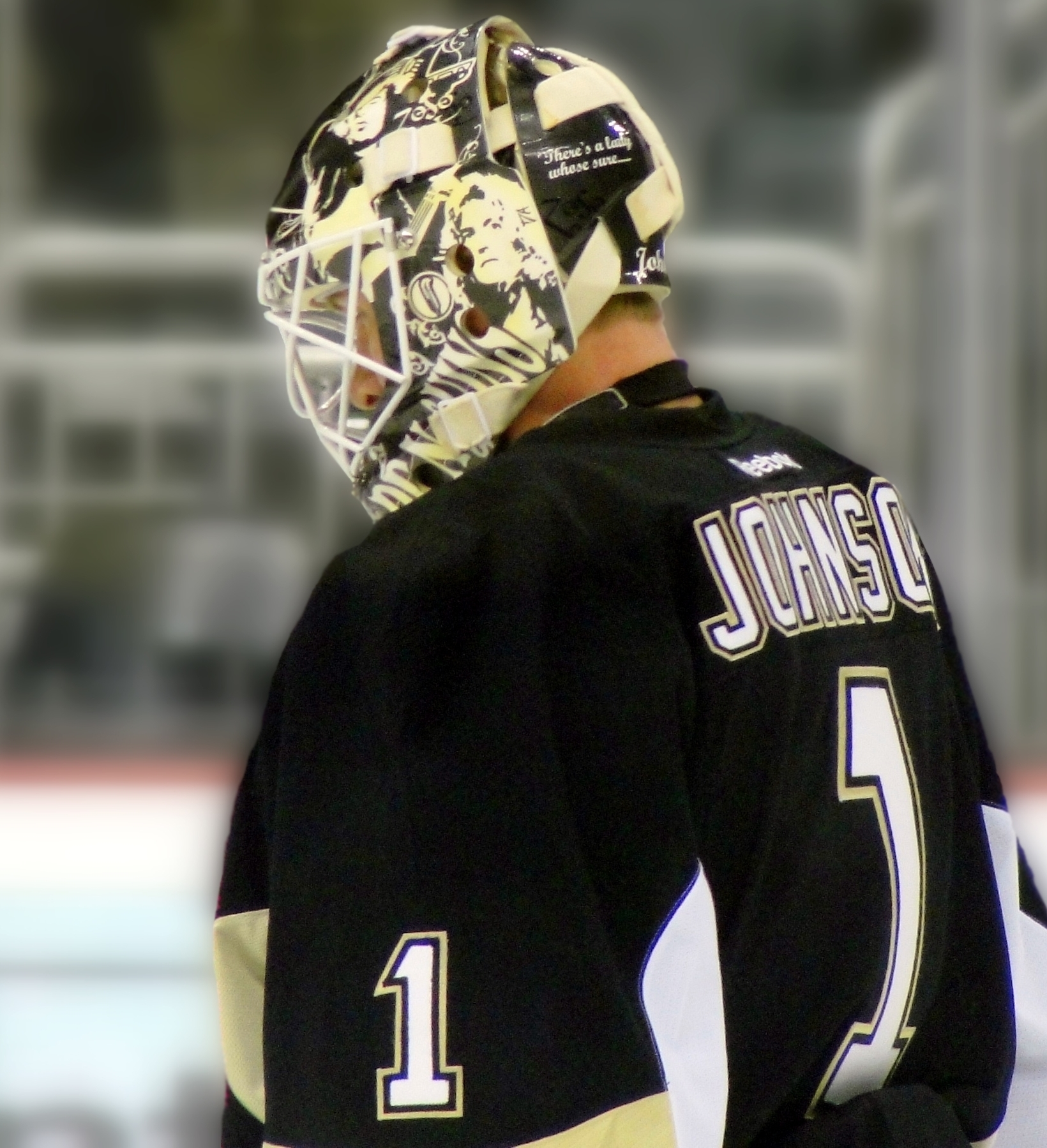 Brent Johnson, backup goaltender for the Pittsburgh Penguins, warms up before the Penguins' home opener against the Florida Panthers, October 11, 2011 at Consol Energy Center in Pittsburgh, PA.